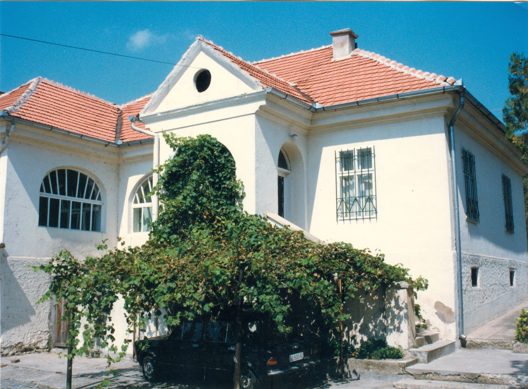 Depot of the Historical Archive of Negotin Srpski (latinica): Istorijski arhiv Negotina, Depo